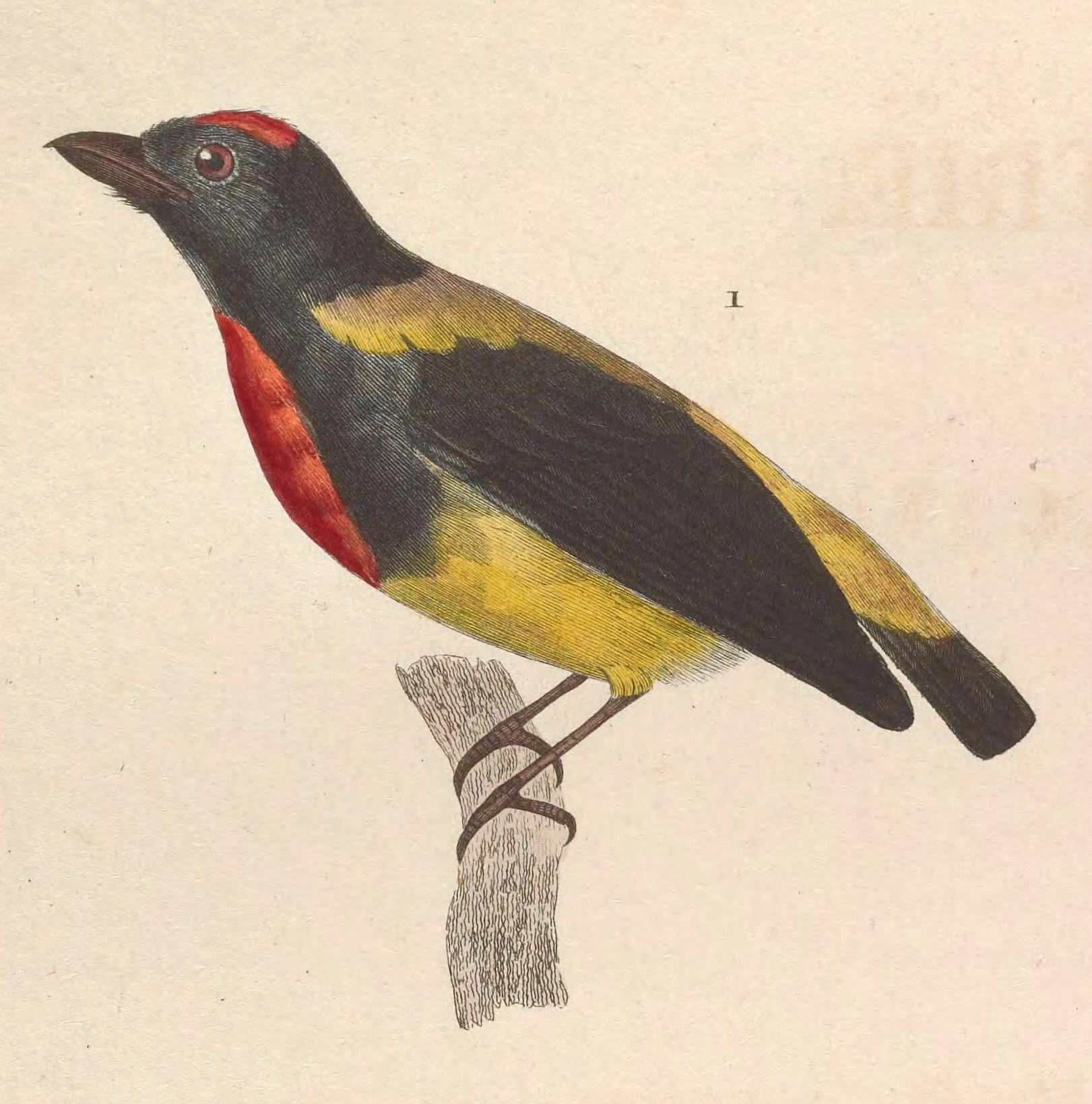 « Pardalotus thoracicus » = Prionochilus thoracicus (Scarlet-breasted Flowerpecker) - male